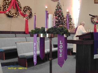 Sitting next to the pulpit is an Advent wreath in the chancel of Broadway United Methodist Church, New Philadelphia, Ohio, USA. The Advent wreath consists of four coloured candles of the same size, arranged around a larger white Christ candle. In this image, two candles are lit on the Advent wreath, indicating the service of worship to be commemorating the Second Sunday of Advent.